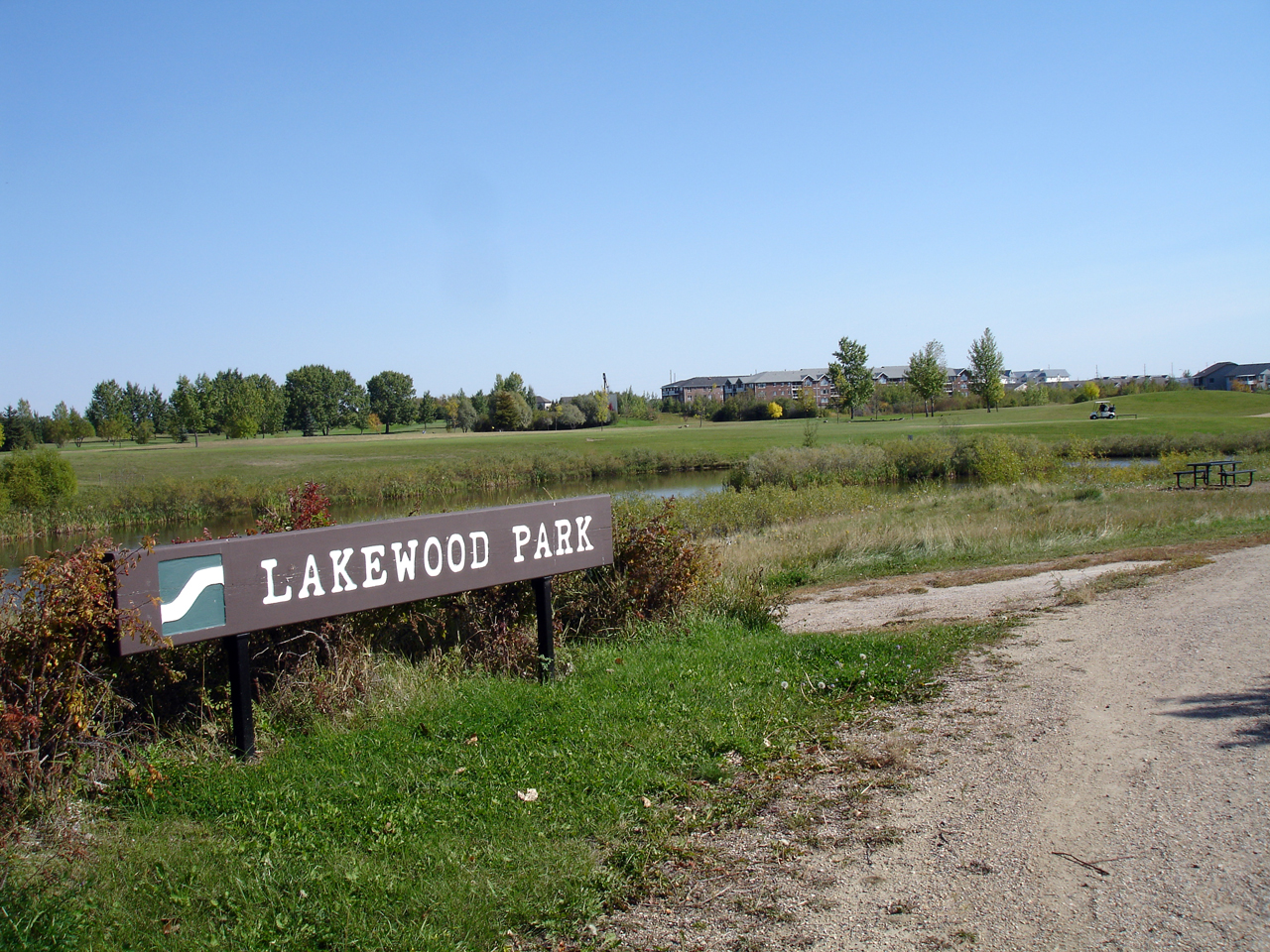 Lakewood Park, a 20.6 acre neighbourhood park in the subdivision of Wildwood in Saskatoon, Saskatchewan, Canada.